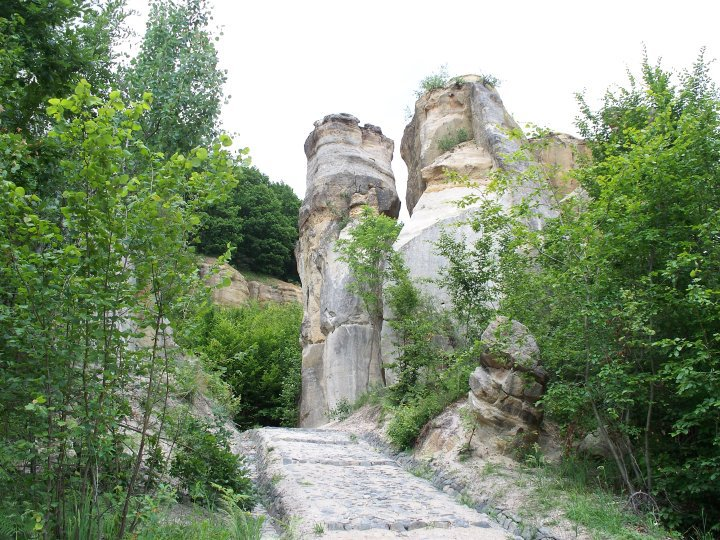 Natural Reserve "The Garden of Trolls", Gâlgău Almaşului, Sălaj County